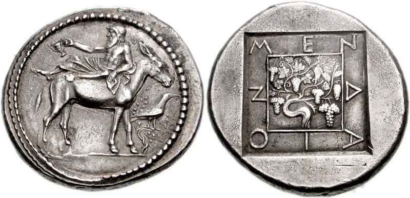 MACEDON, Mende. Circa 460-423 BC. AR Tetradrachm (30mm, 17.10 g, 11h). Inebriated Dionysos reclining left, holding kantharos in right hand, on back of an ass standing right; to right, bird standing right on ivy / MEN-DA-I-ON within linear square around vine of six grape clusters within linear square; all within incuse square.